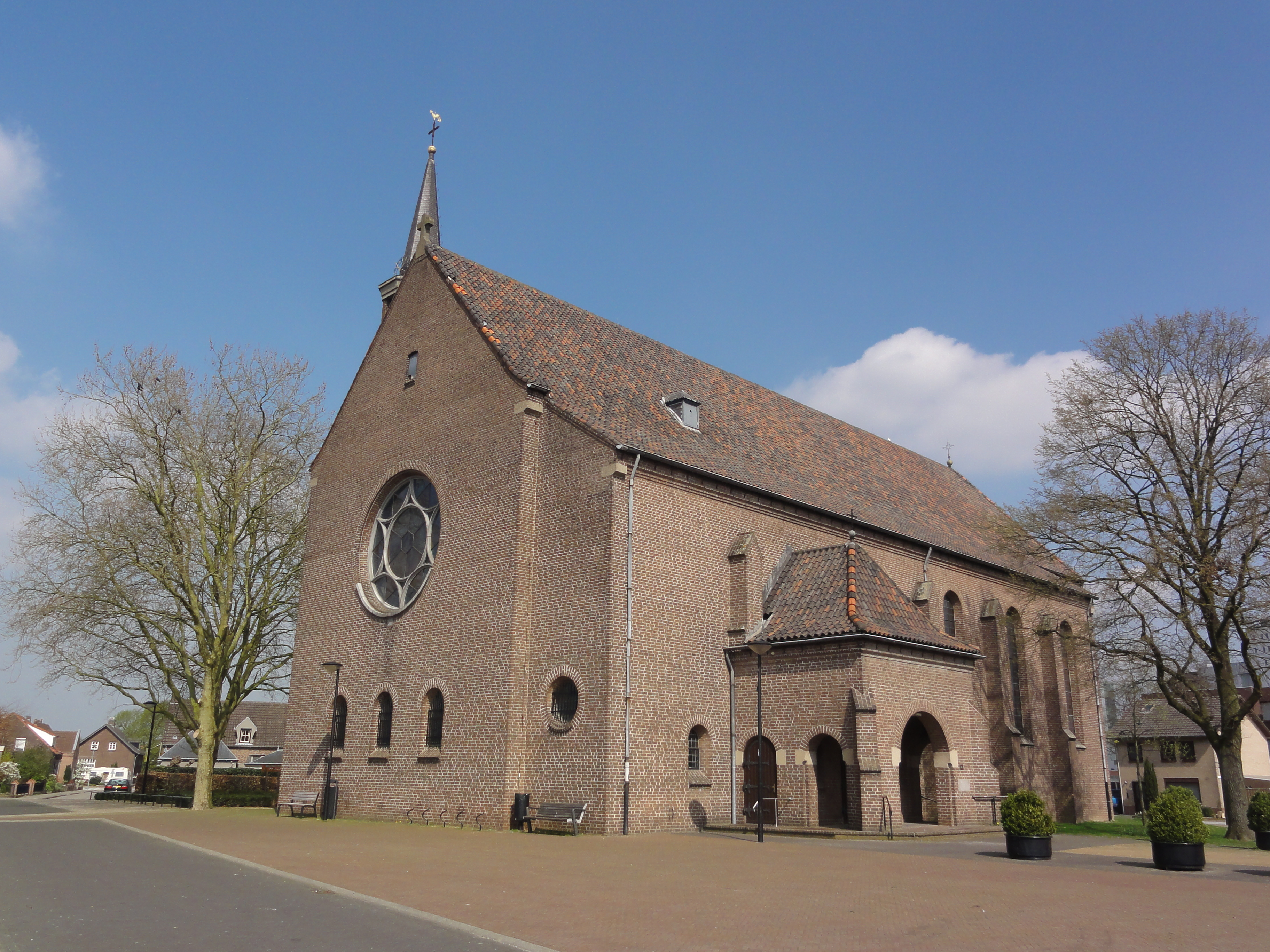 Venray Wanssum, RK Sint Michaëlskerk portaalzijde.